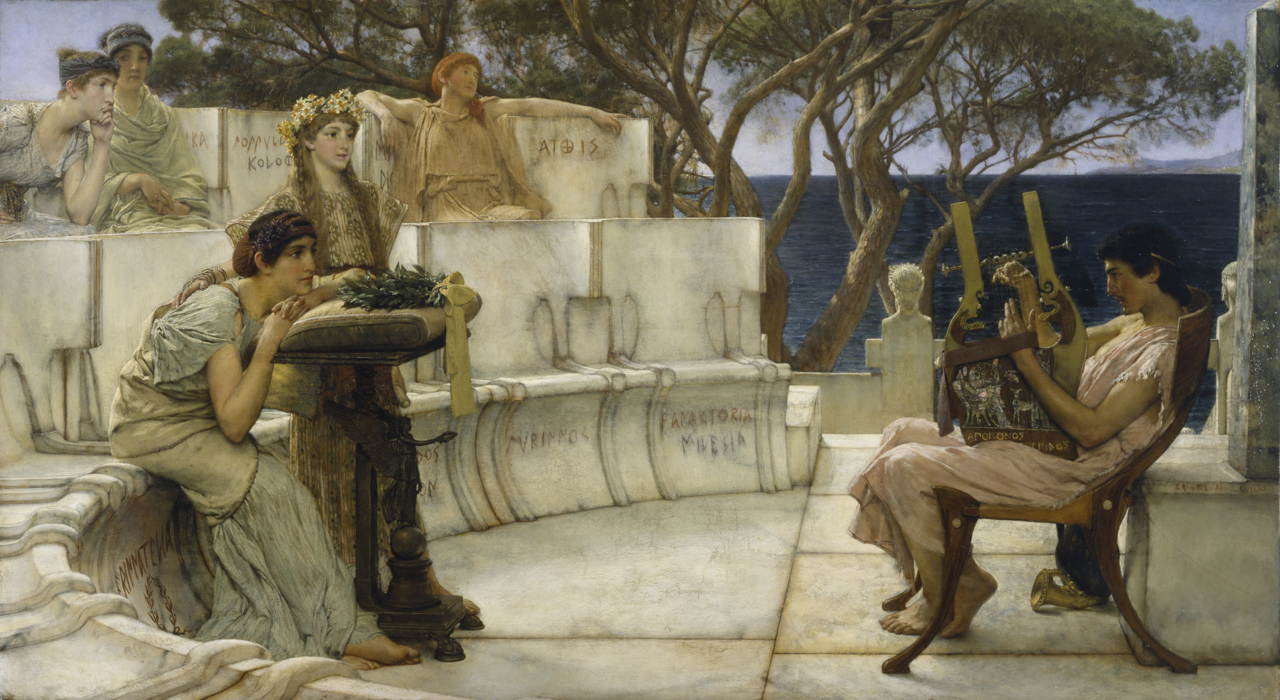 In 1870, the Dutch-born, Belgian-trained artist Alma-Tadema moved to London, where he found a ready market among the wealthy middle classes for paintings re-creating scenes of domestic life in imperial Roman times. In this work, however, he turns to early Greece to illustrate a passage by the ancient Greek poet Hermesianax (active ca. 330 BC) preserved in Atheneaus, Deipnosophistae, "Banquet of the Learned," book 2, line 598. On the island of Lesbos (Mytilene), in the late 7th century BC, Sappho and her companions listen rapturously as the poet Alcaeus plays a "kithara". Striving for verisimilitude, Alma-Tadema copied the marble seating of the Theater of Dionysos in Athens, although he substituted the names of members of Sappho's sorority for those of the officials incised on the Athenian prototype.